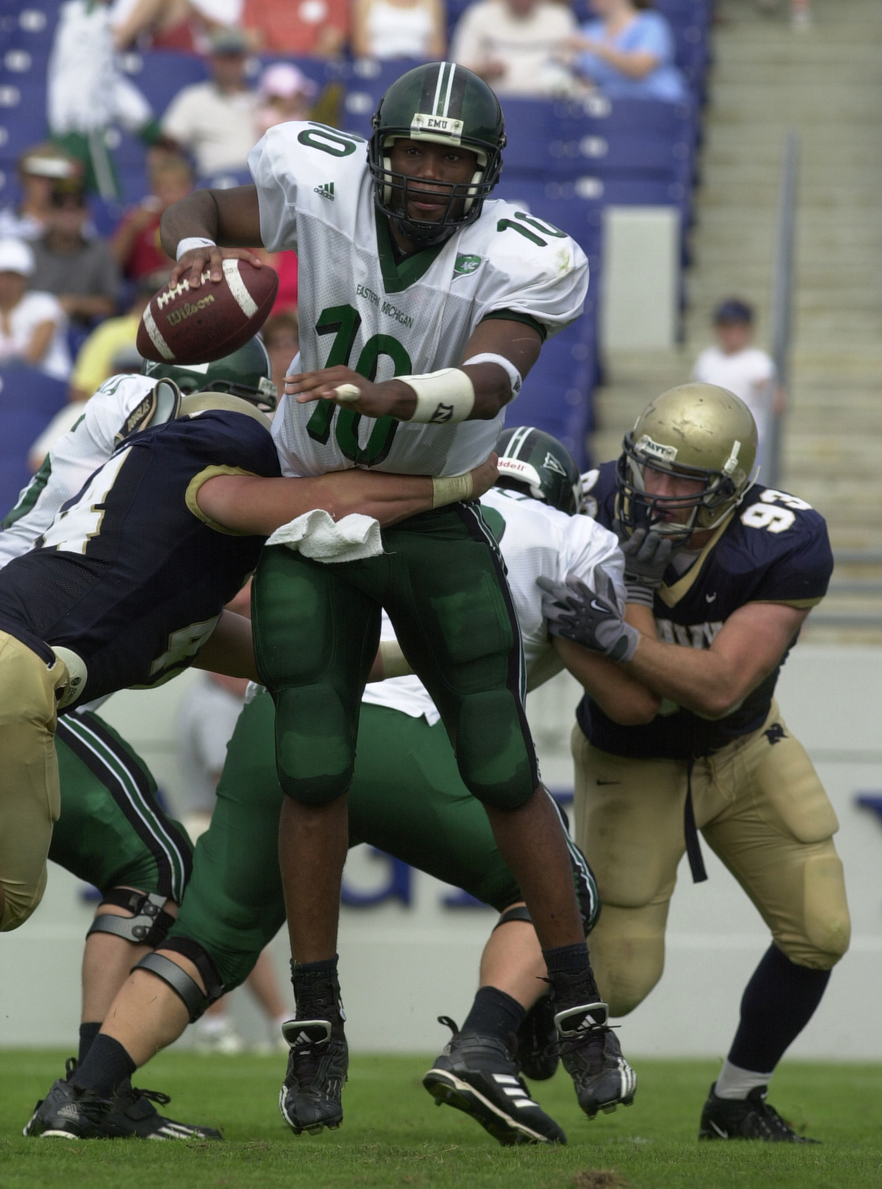 Annapolis, Md. - (Sept. 20, 2003) -- Eastern Michigan University (EMU) junior quarterback Chinedu Okoro attempts to pass while getting wrapped up by Navy junior linebacker Lane Jackson. Navy scored 28 second half points to put the game out of reach, as they defeated Eastern Michigan University, 39-7. U.S. Navy photo by Journalist 1st Class Mark D. Faram. (RELEASED)